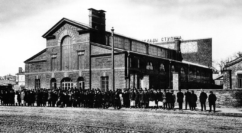 Morozov's Labor Exchange in Orlikov Lane, Moscow.